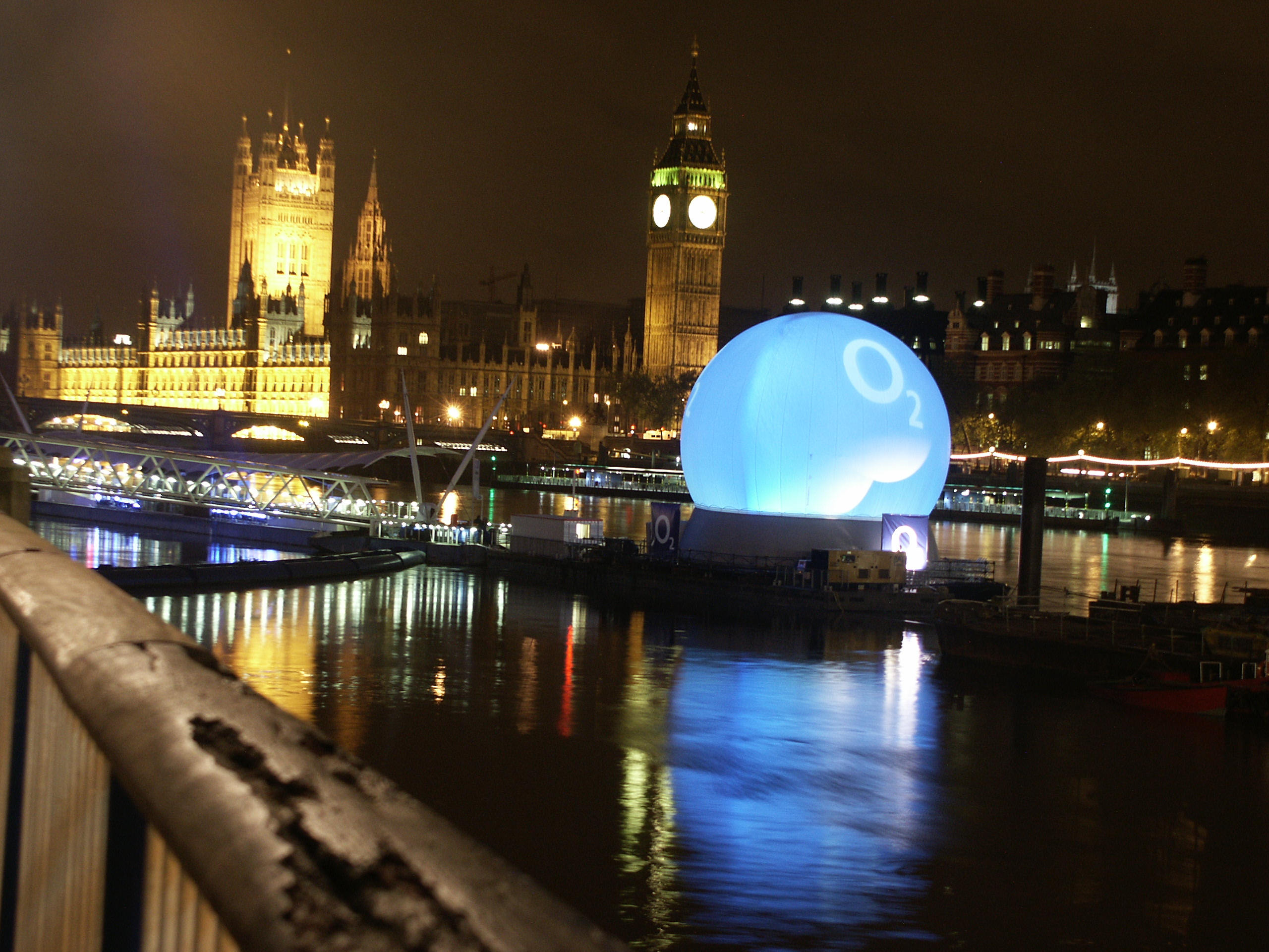 O2 Launch Event on River Thames 30April2002